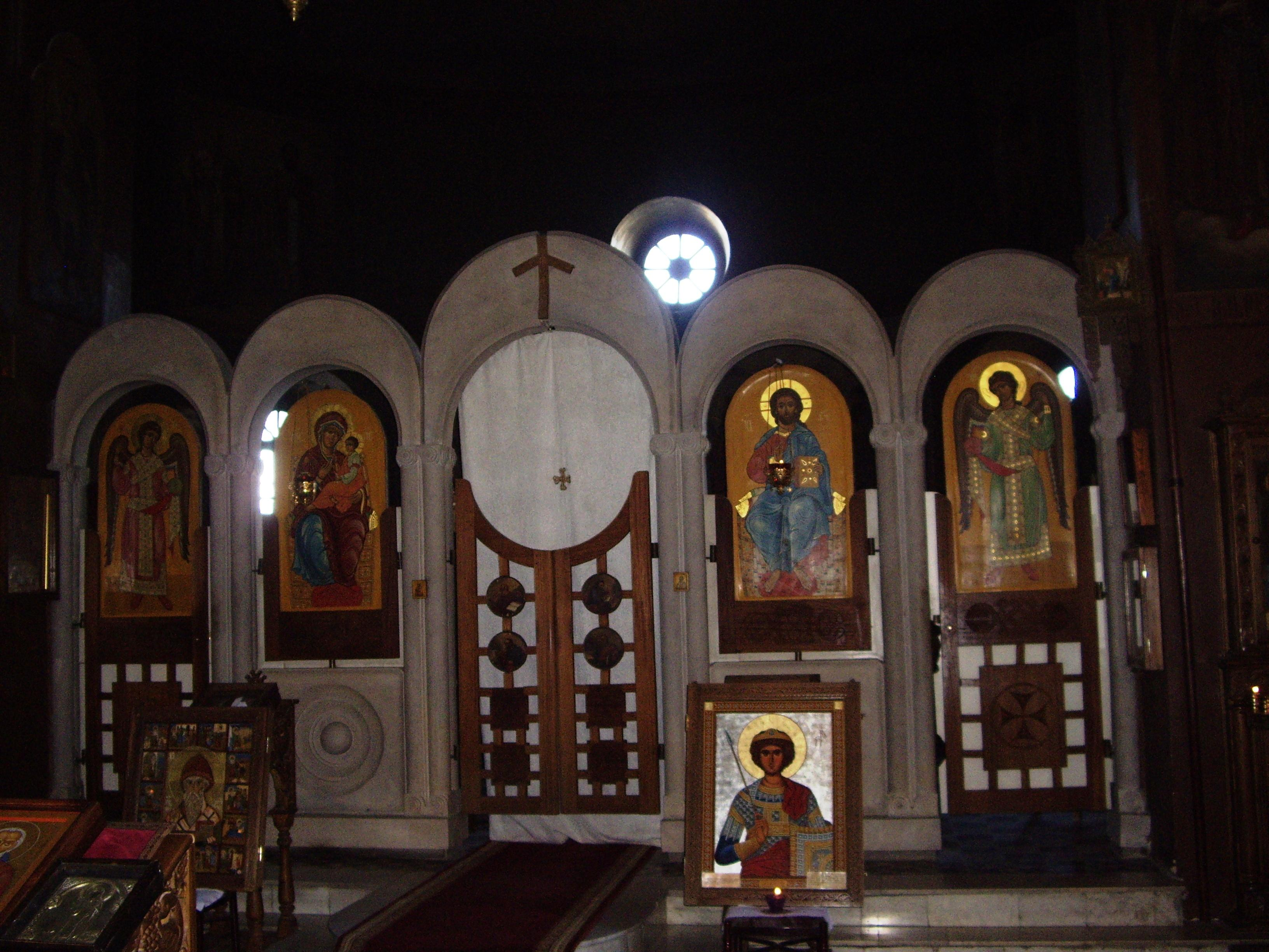 Tbilisi Mama daviTi church iconostas